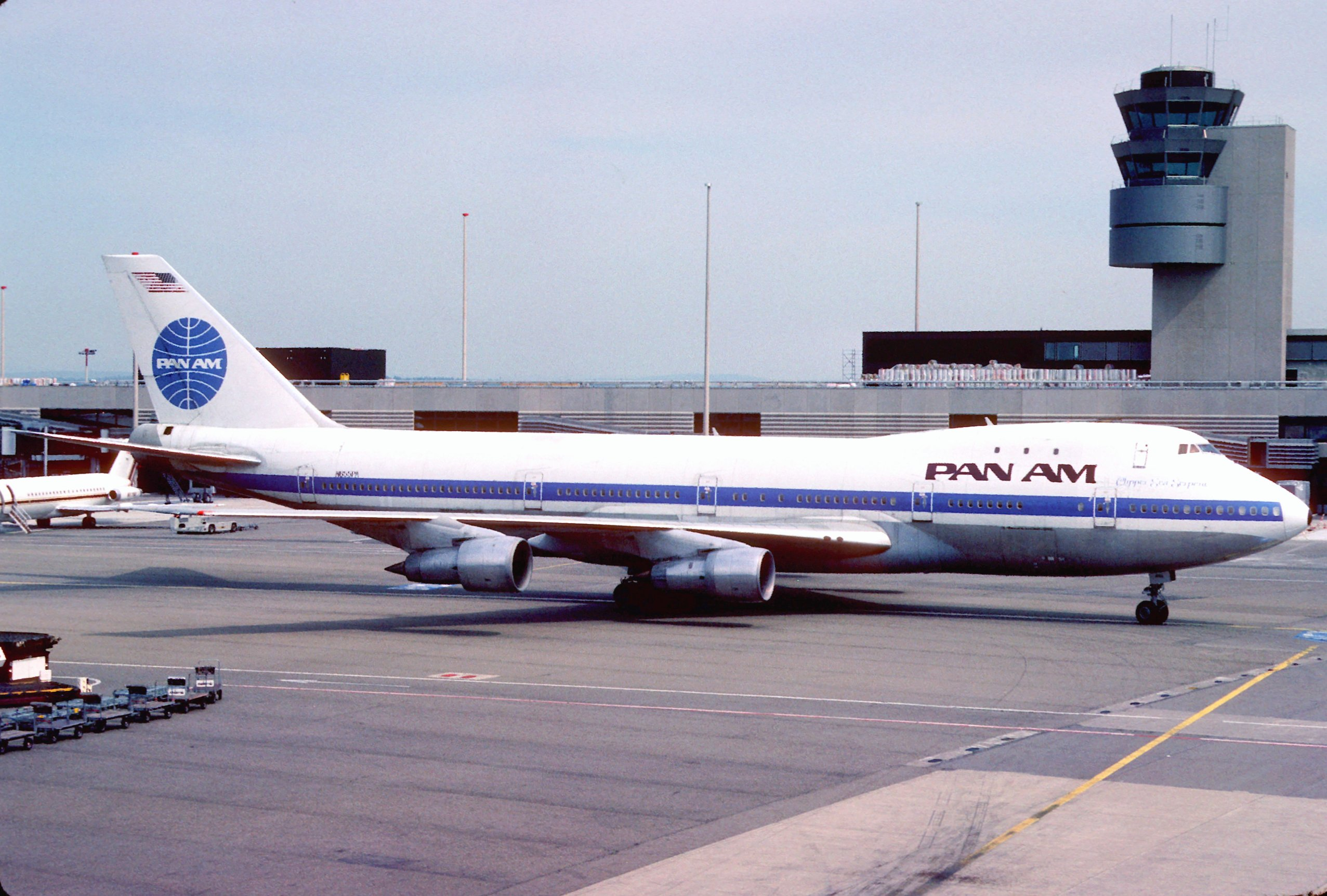 Pan Am Boeing 747-121; N655PA@ZRH, July 1985